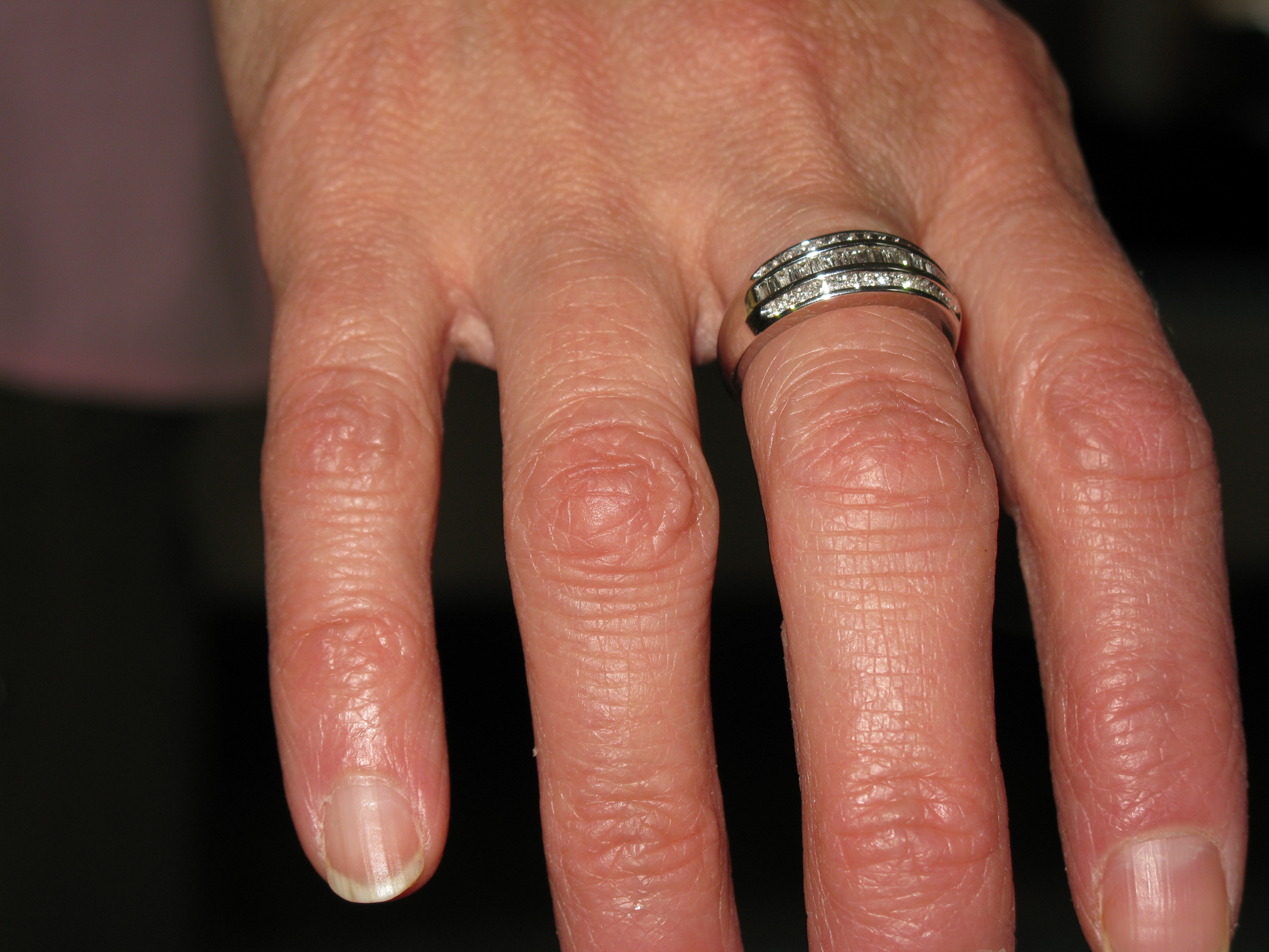 Wedding anniversary diamond ring.